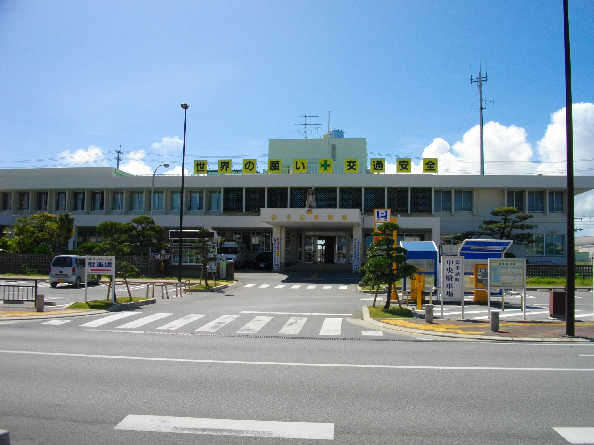 Kadena Police Station